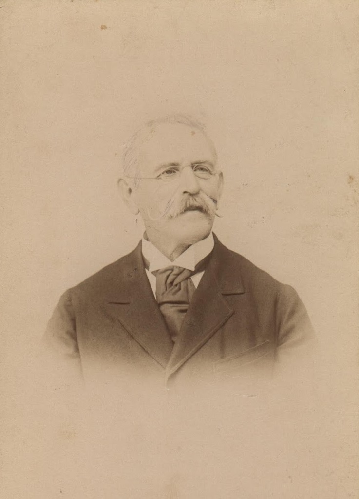 Manuel Peinado Álvarez